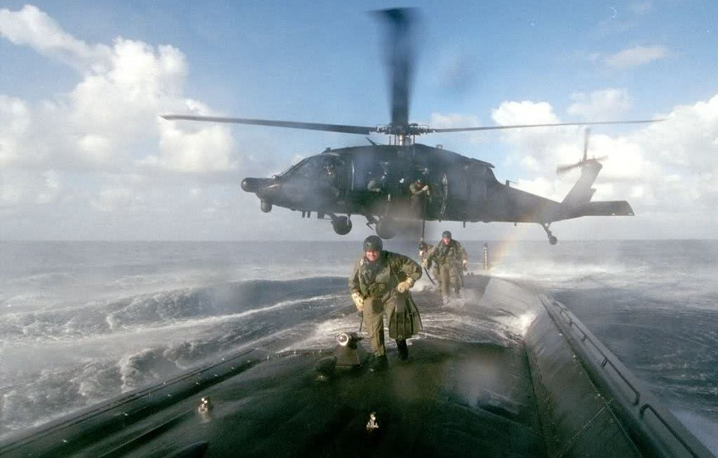 U.S. Army MH-60L Blackhawk from the 160th SOAR deploys an ODA from 7th SFG(A) onboard a U.S. submarine.